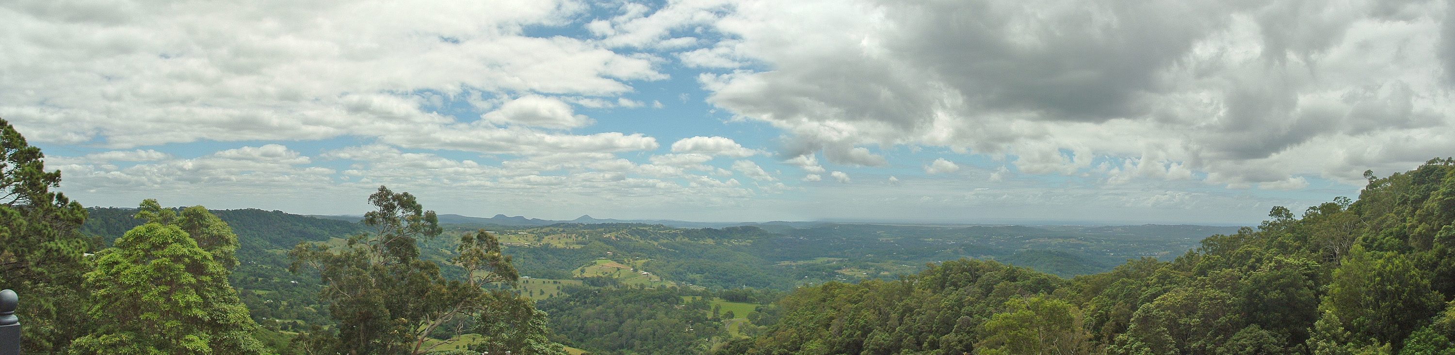 Looking over the Sunshine Coast Hinterland from Montville in Queensland.